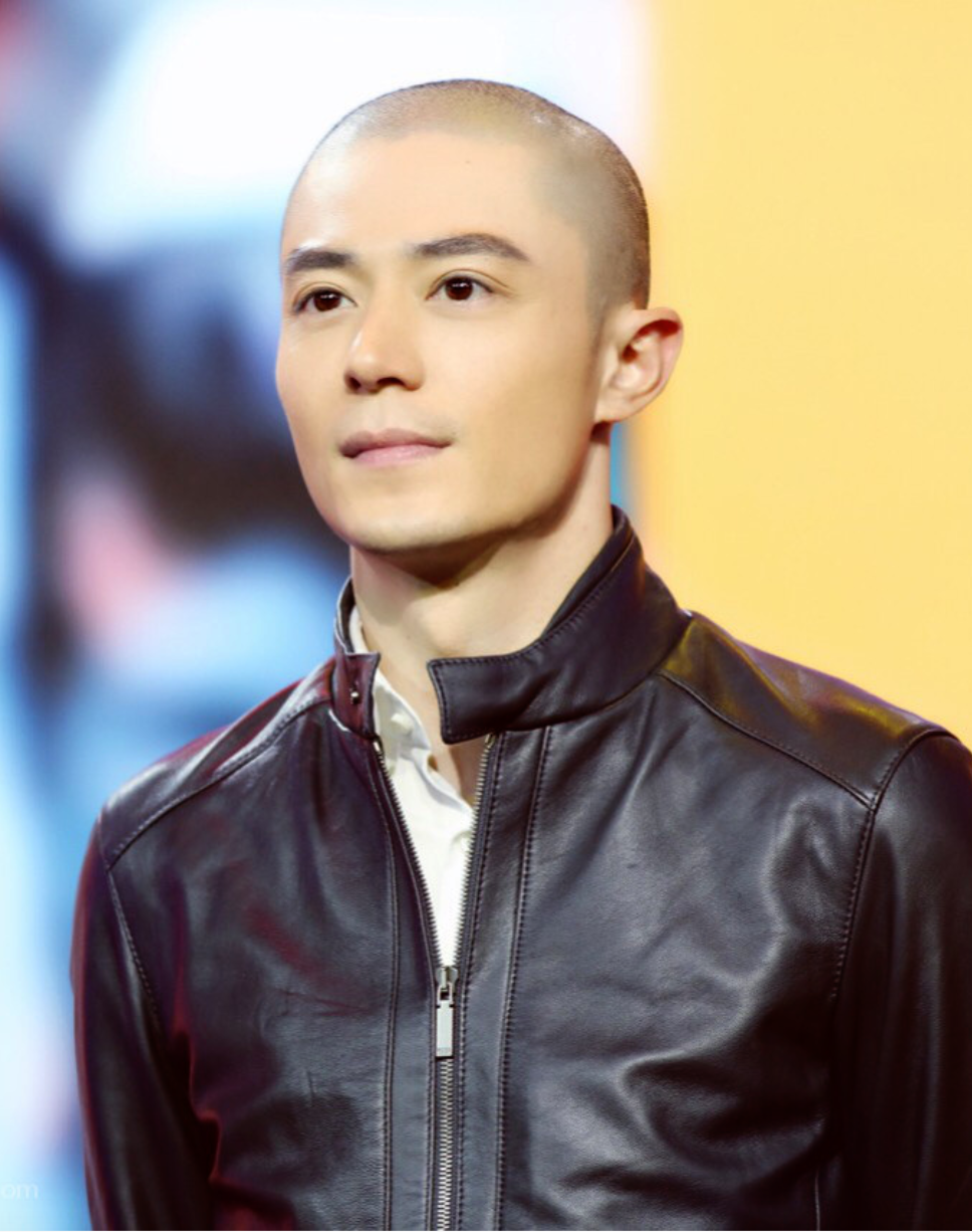 Wallace Huo image taken in November 2016 cropped from original